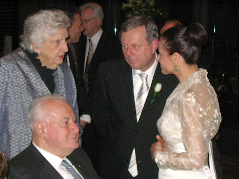 Former Prime Minister of Australia Gough Whitlam with wife Margaret (left) at the wedding reception of the Premier of South Australia Mike Rann and Sasha Carruozzo (right), Australian Wine Centre.